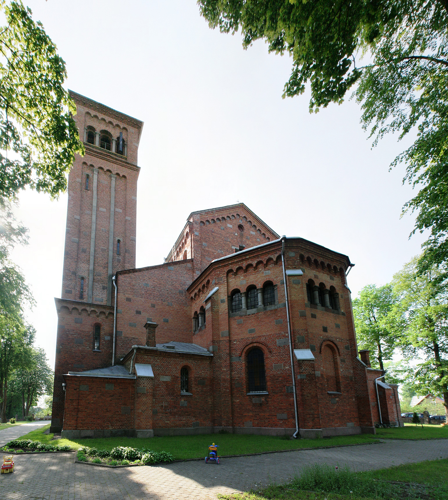 The Church in Lentvaris, Neo-romanic style